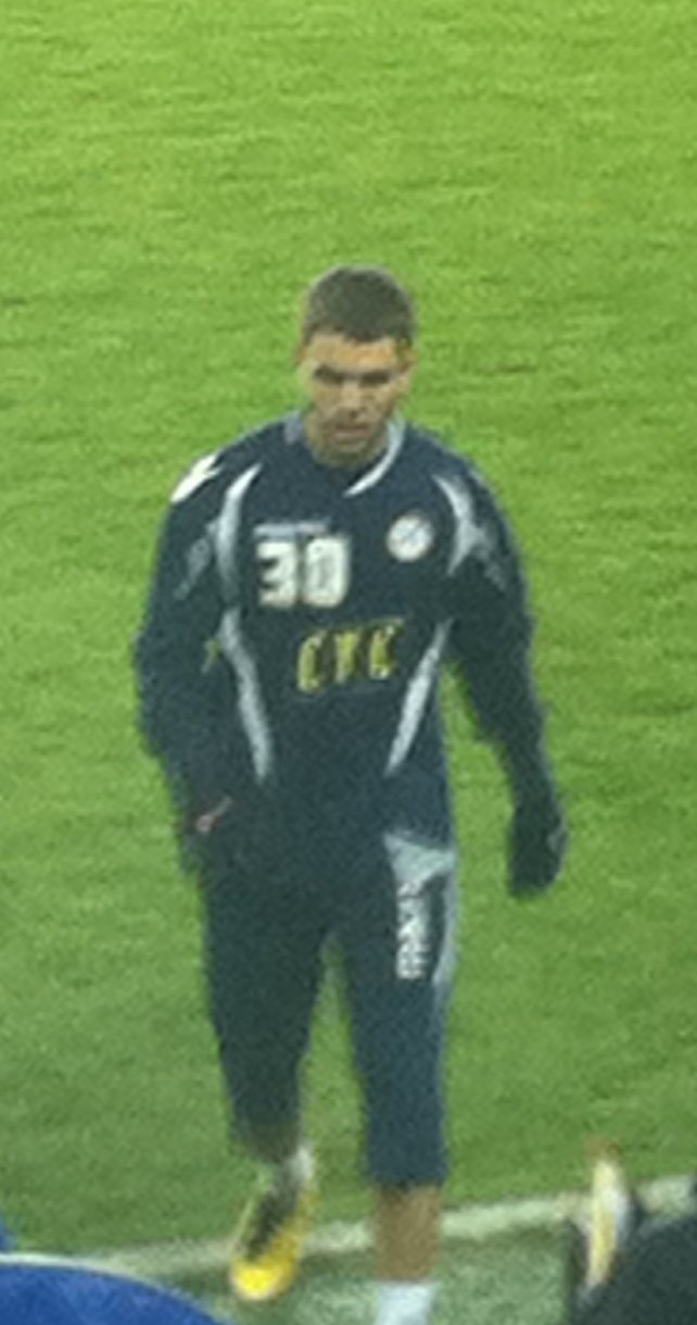 McQuoid playing for Millwall against Scunthorpe.